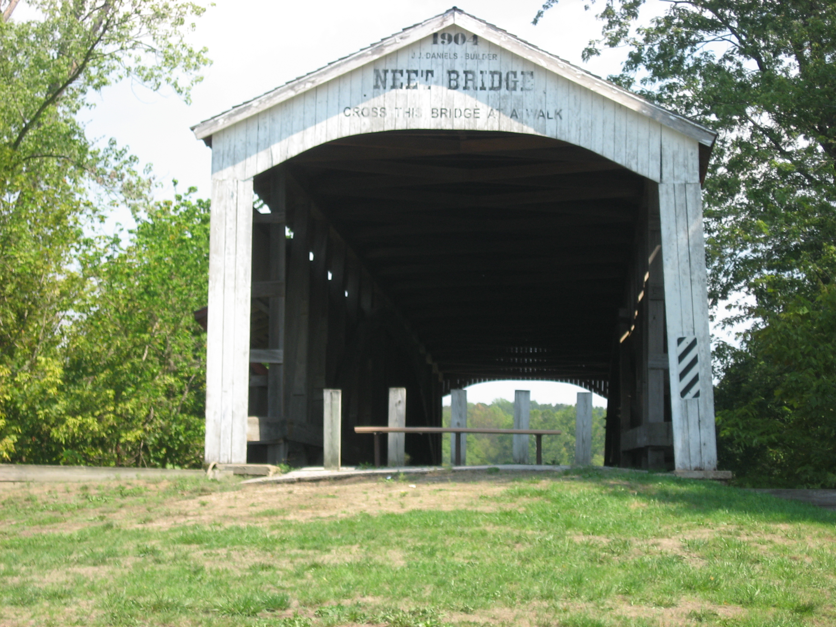 Western portal of the Neet Covered Bridge, which spans Little Raccoon Creek north of Bridgeton in Adams Township, Parke County, Indiana, United States. Built in 1904, it is listed on the National Register of Historic Places.